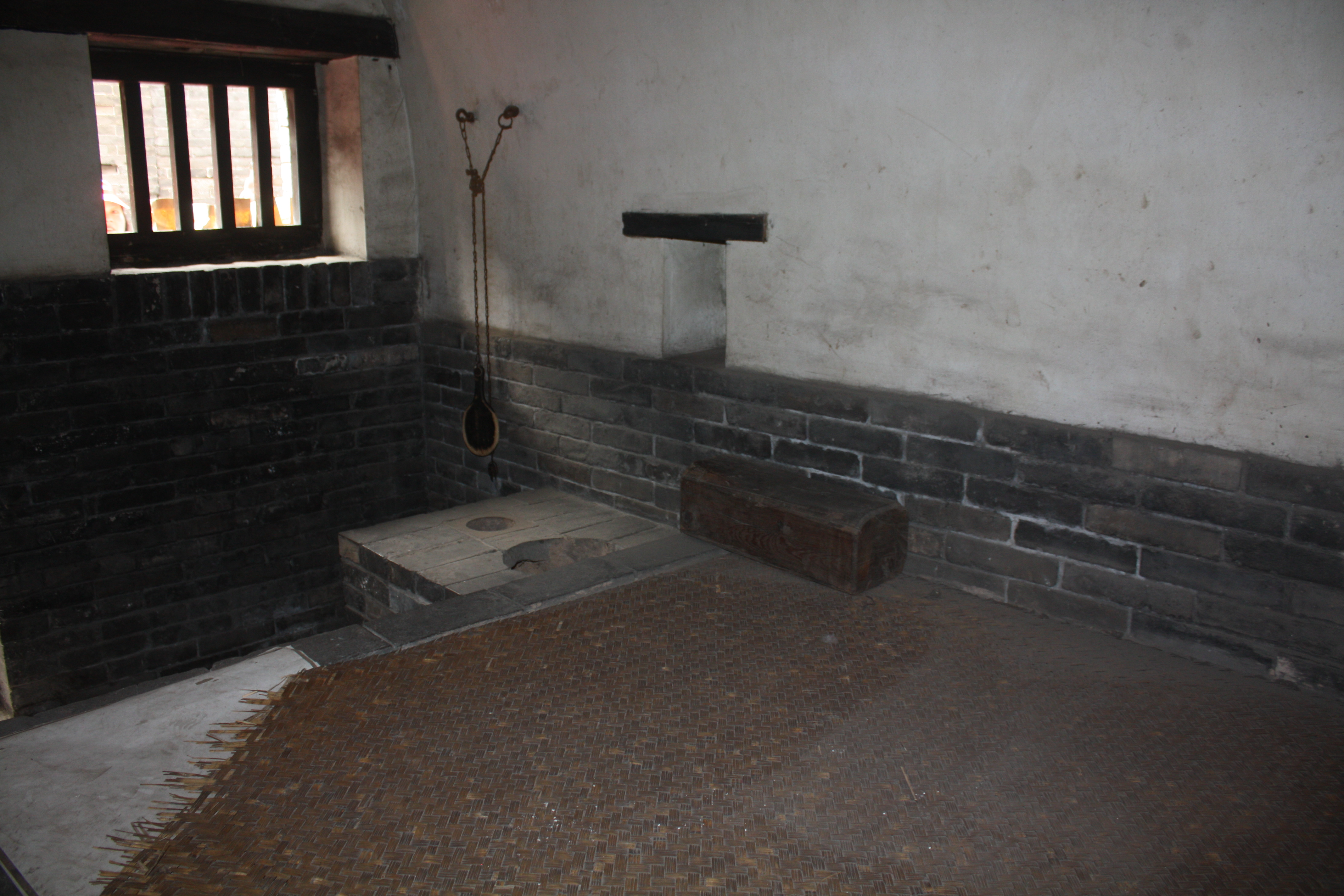 The interior of a cell in the Pingyao yamen.